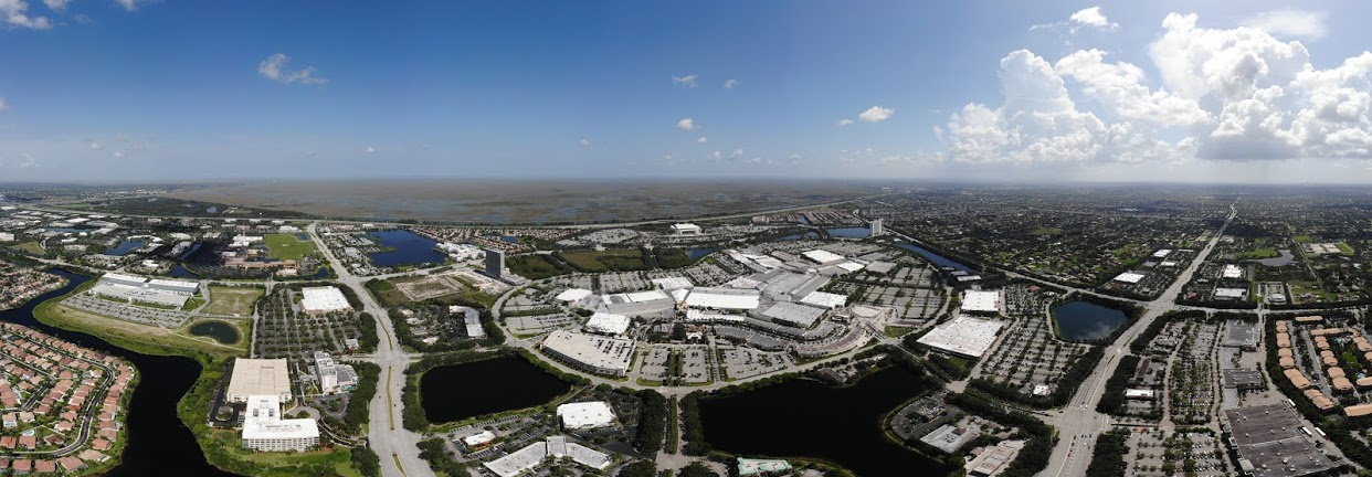 Sawgrass Mills Mall ariel panoramic shot.